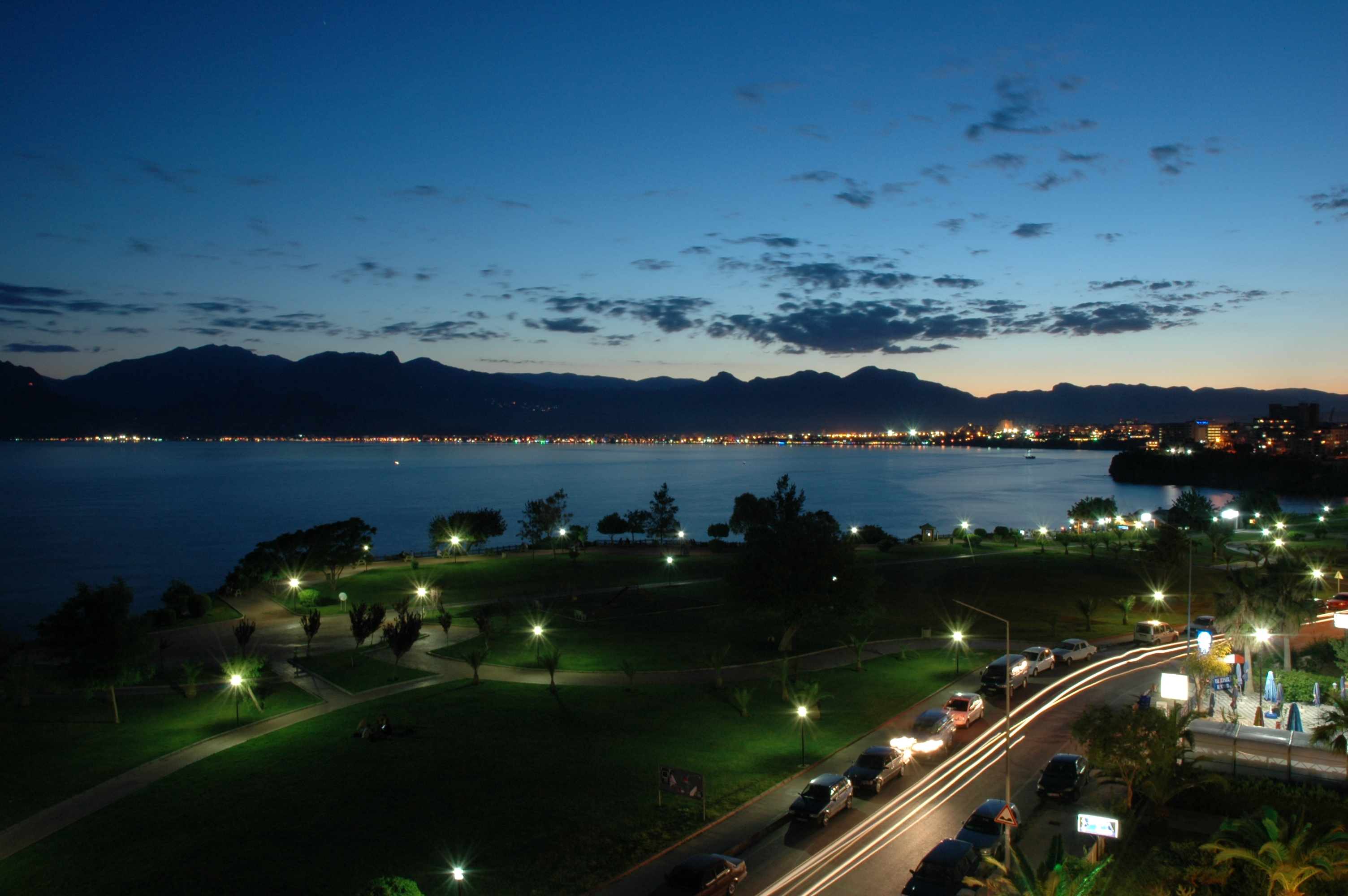 General view of Antalya Turkey.